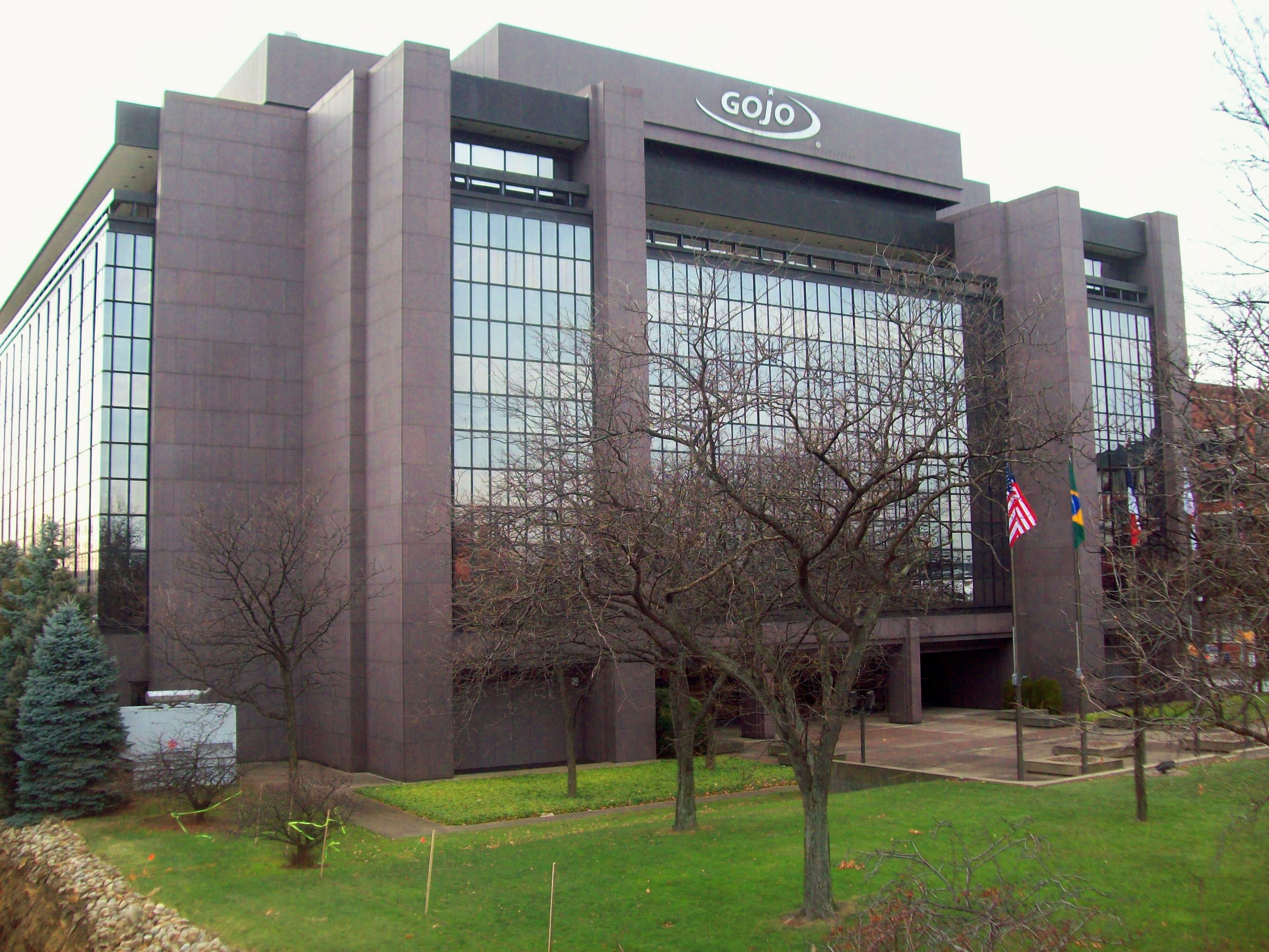 Gojo Headquarters